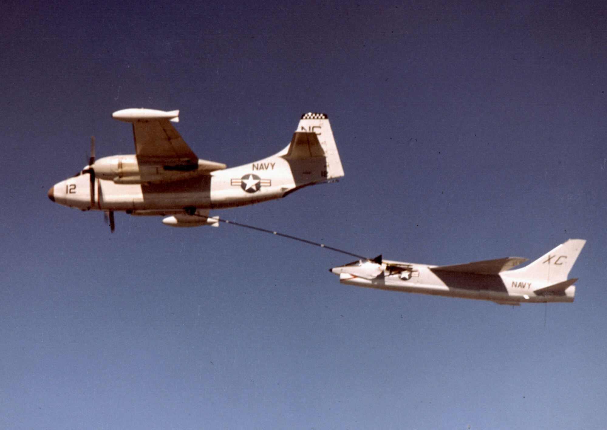 A U.S. Navy North American AJ-2 Savage from Composite Squadron VC-8 Checkertails refueling a Vought F8U-1 from Air Development Squadron VX-3.